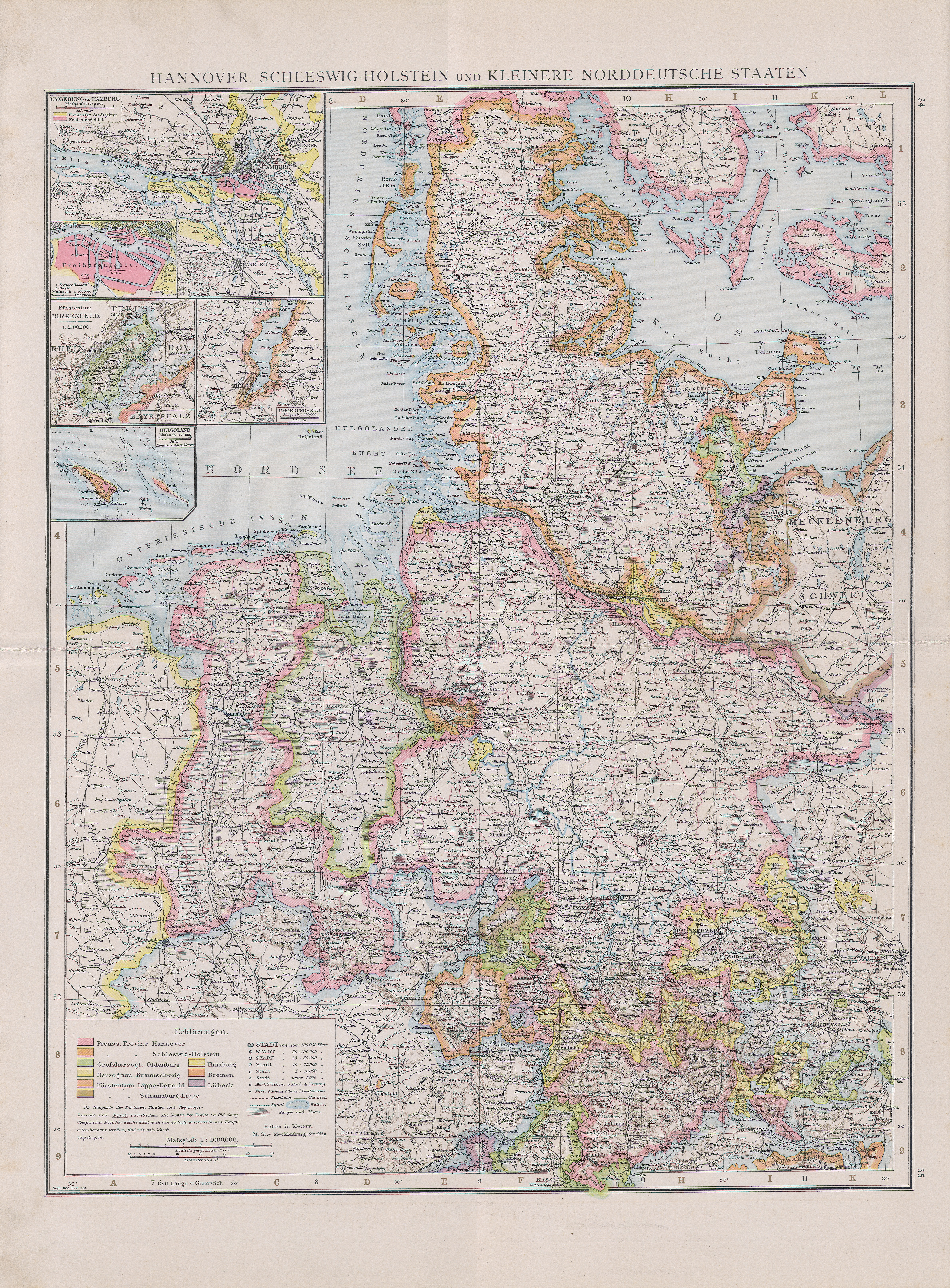 map of Hanover, Schleswig-Holstein and small north-german states